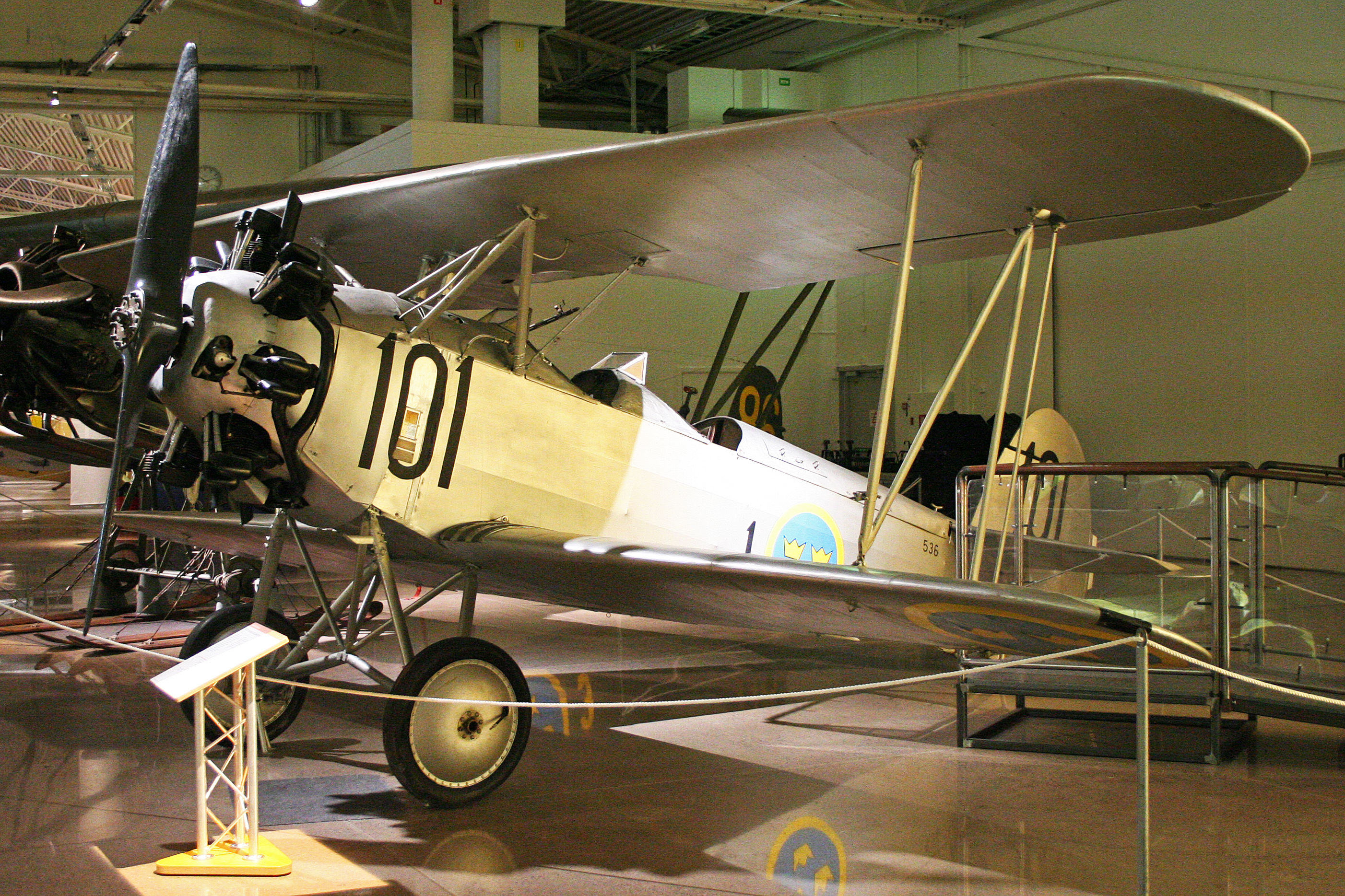 This is the only remaining example of this German trainer. The service aircraft ended up 200kg heavier than the original design, and of the 25 which saw Swedish service, 18 were written off. msn 20. Flyvapenmuseum, Malmen, Sweden. 04-06-2012